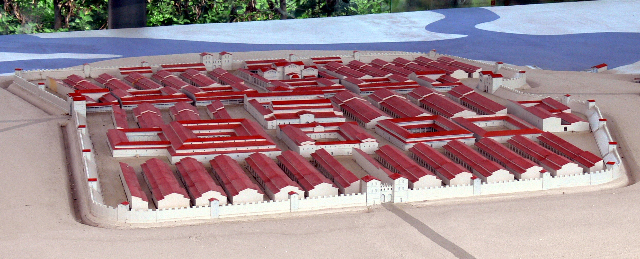 Petronell ( Lower Austria ).Open air museum: Model of Carnuntum ( 210 AD ) - Castra ( military encampment ) of an ancient Roman legion.